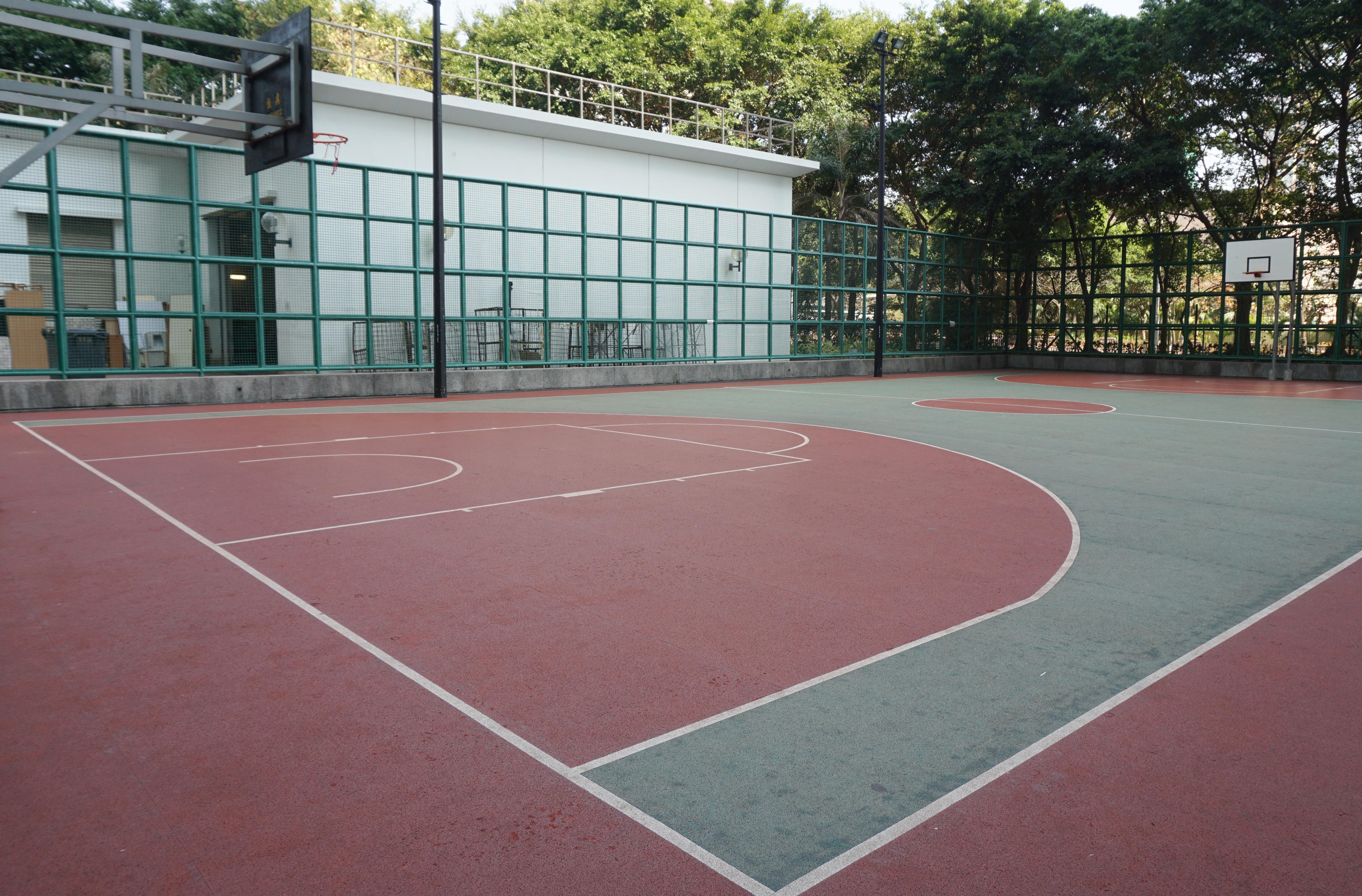 Fu Cheong Estate in Sham Shui Po, Hong Kong.